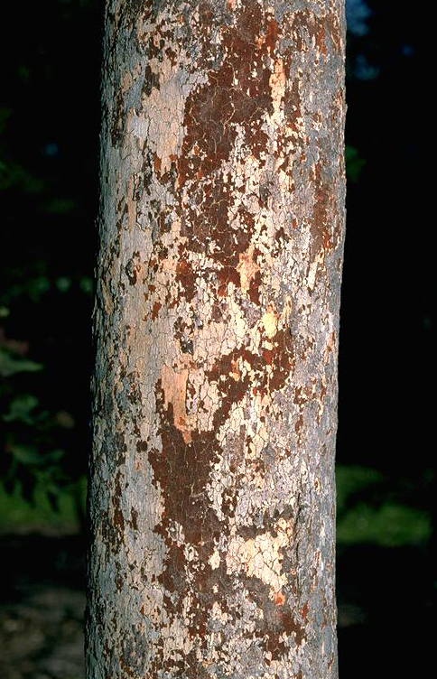 Bark of Eucalyptus bleeseri, near Katherine, Northern Territory